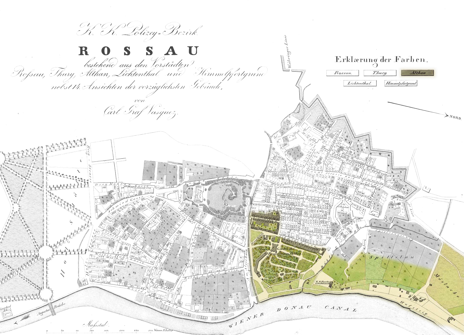 Map of Vienna / Althangrund, approx. 1830